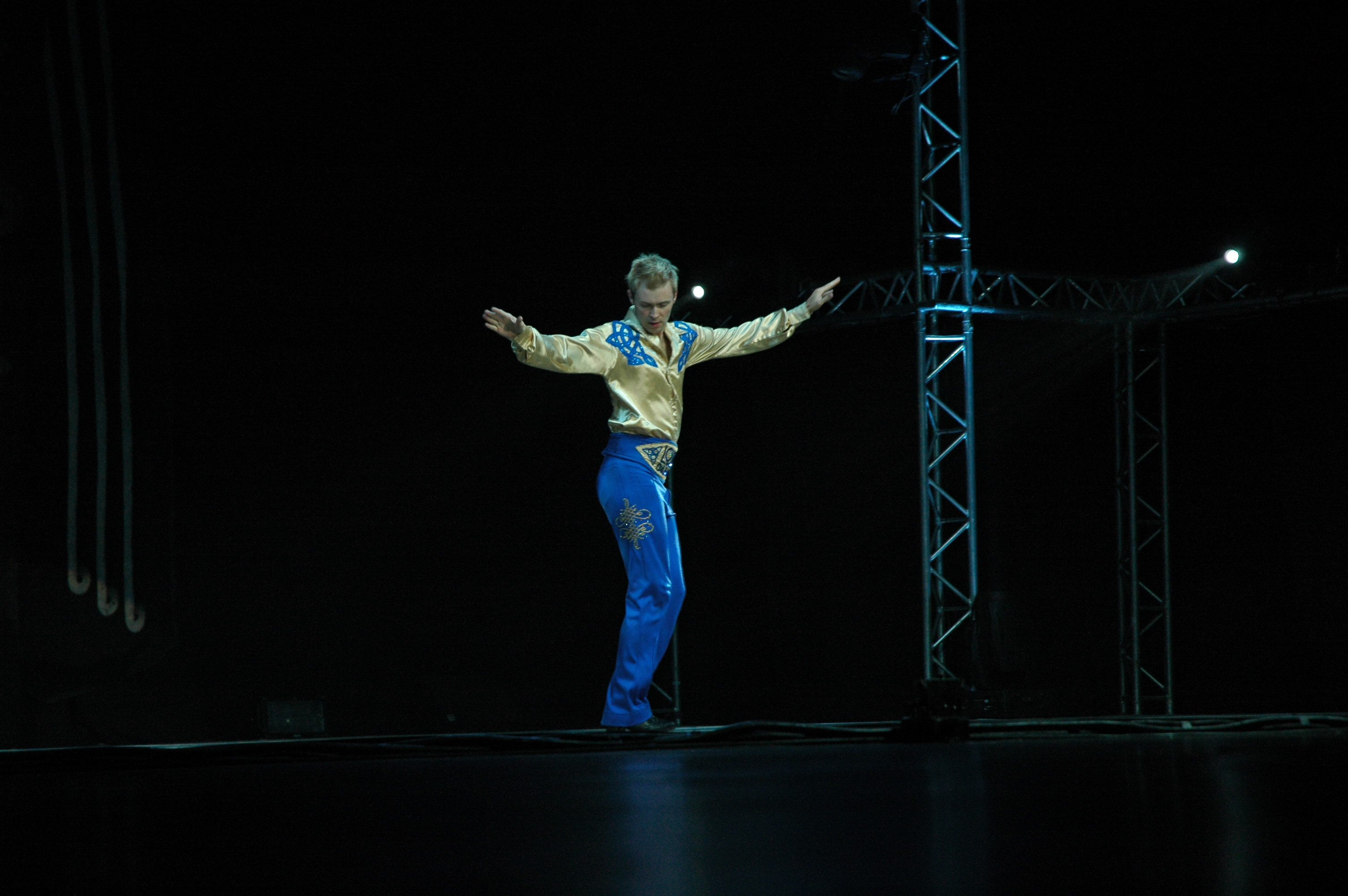 "Lord of the Dance" show of Michael Flatley, part 1 "Cry Of The Celts" with "Lord of the Dance".